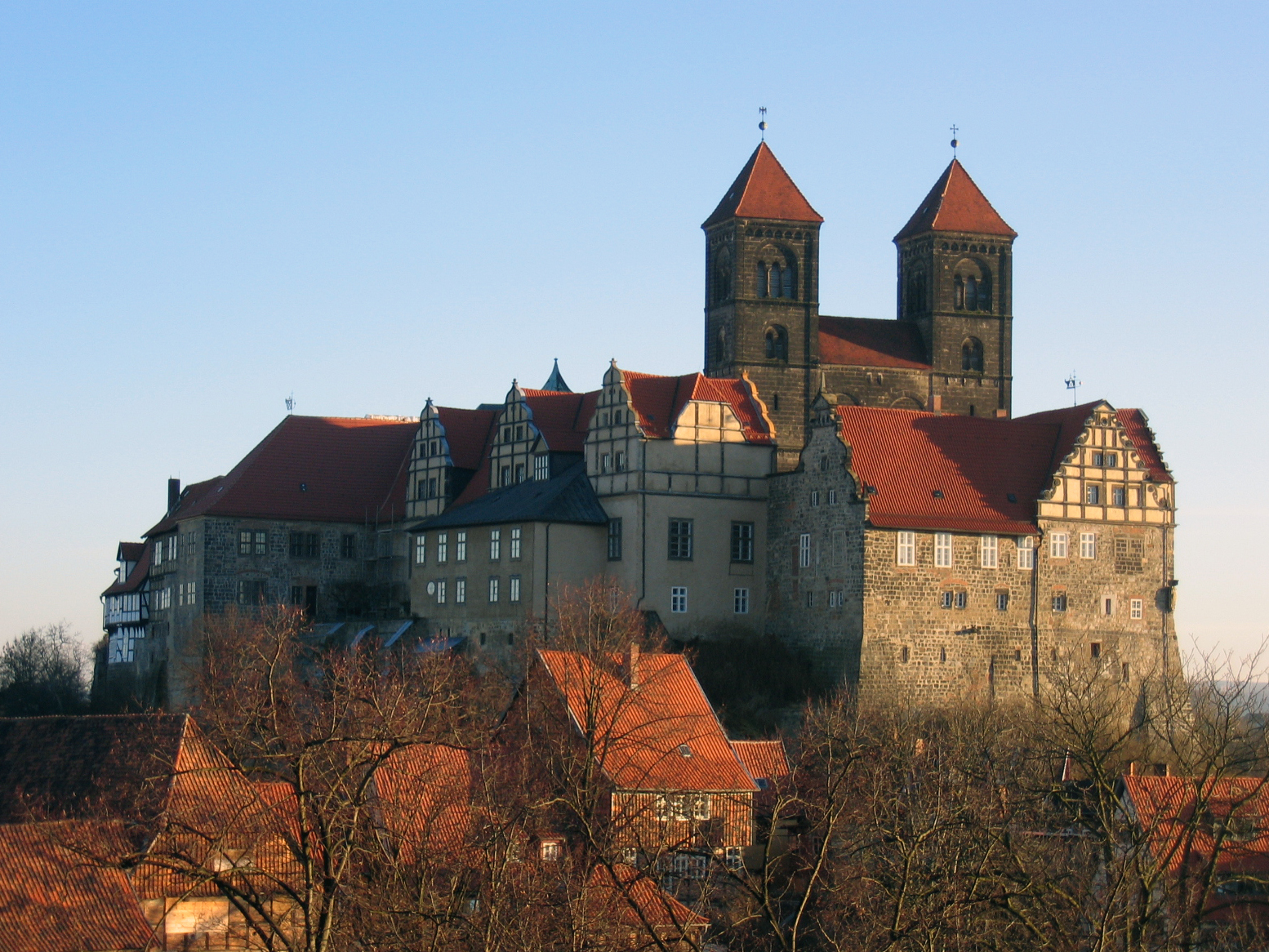 Castle and monastery of Quedlinburg